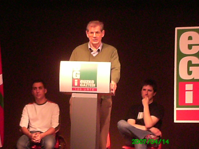 Ramuntxo Camblong.